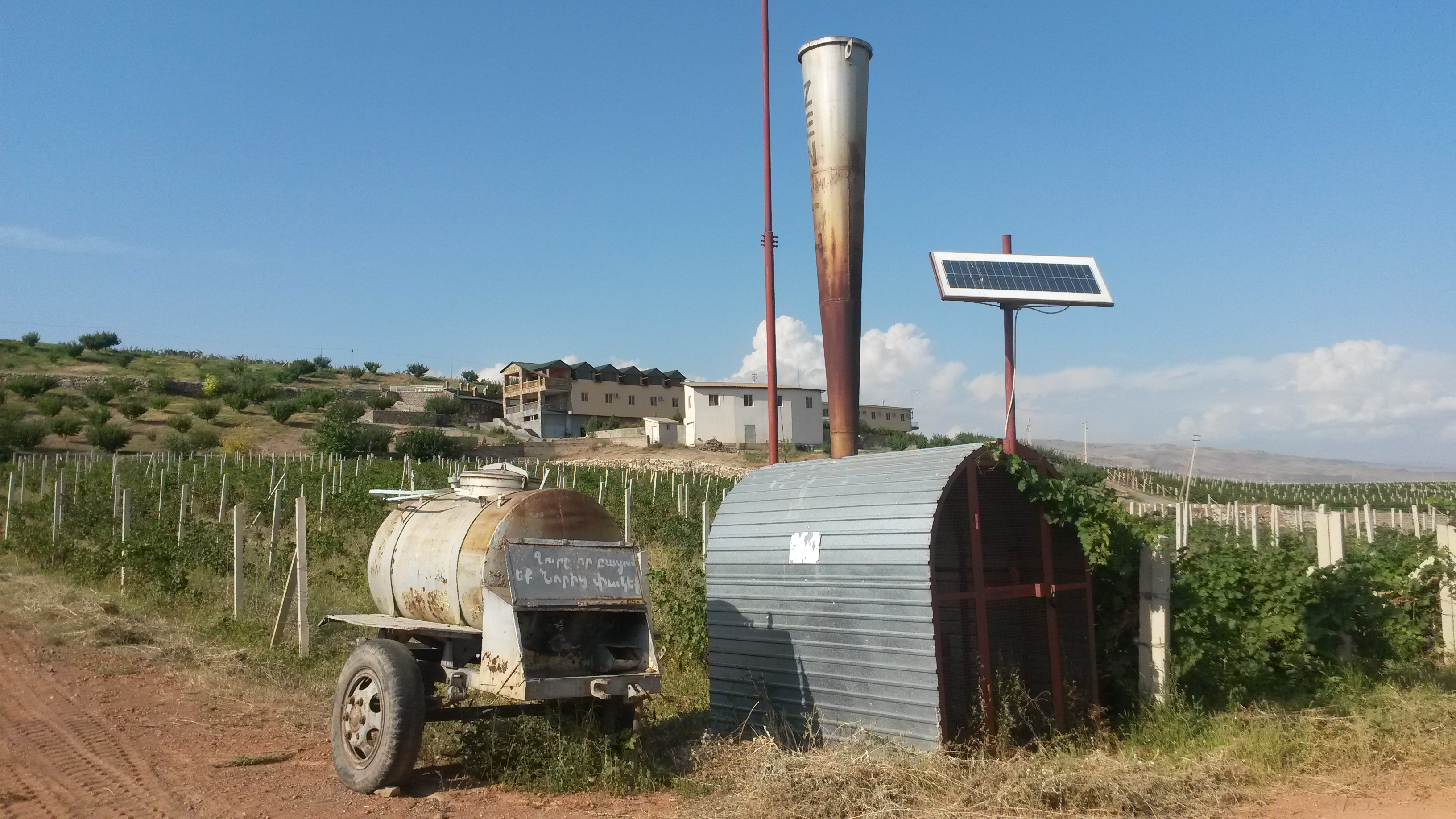 Anti-hail station manufactured in Armenia